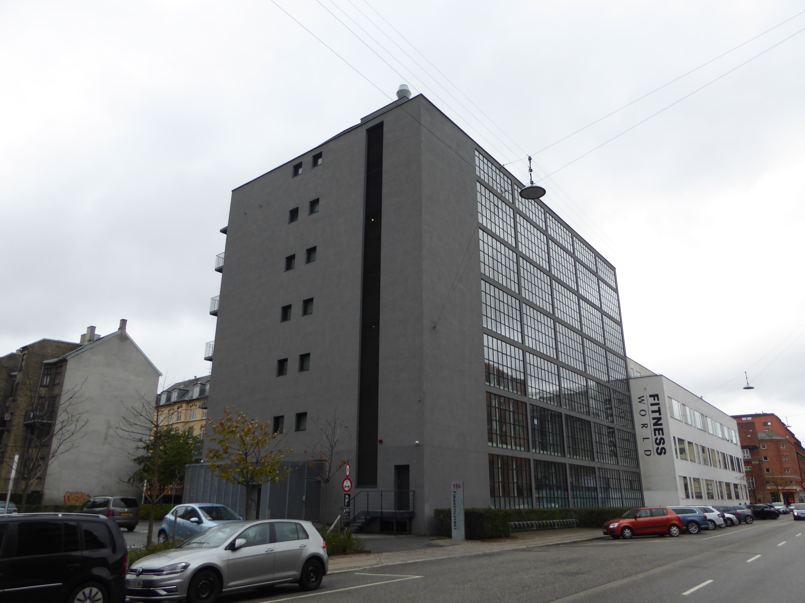 Office building of Finanstilsynet (the Danish Financial Supervisory Authority) at Århusgade in Østerbro in Copenhagen.